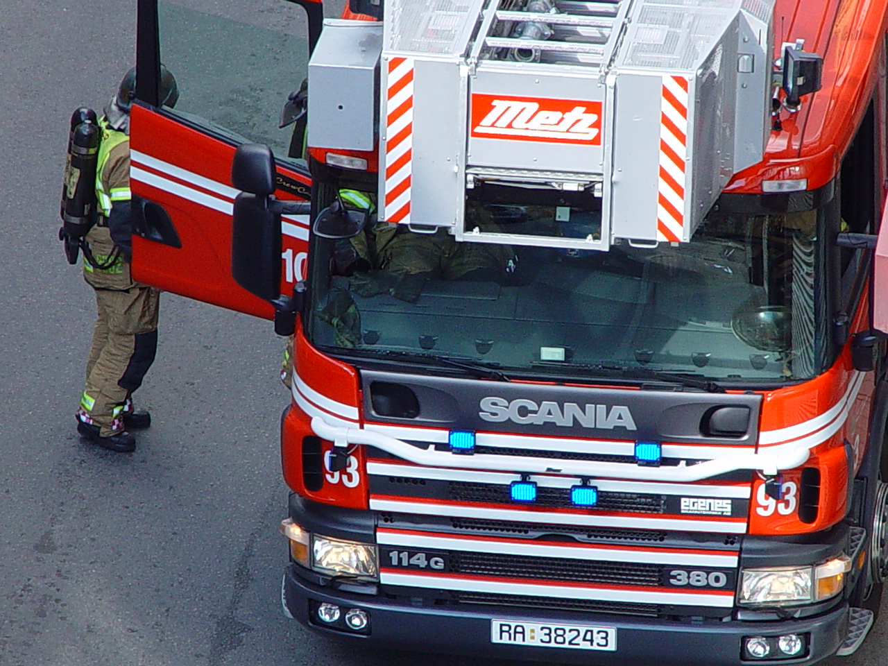 Norwegian fire engine.